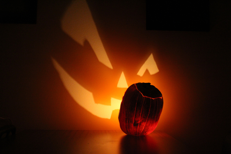 A traditional carved pumpkin with a candle inside projecting onto the wall.